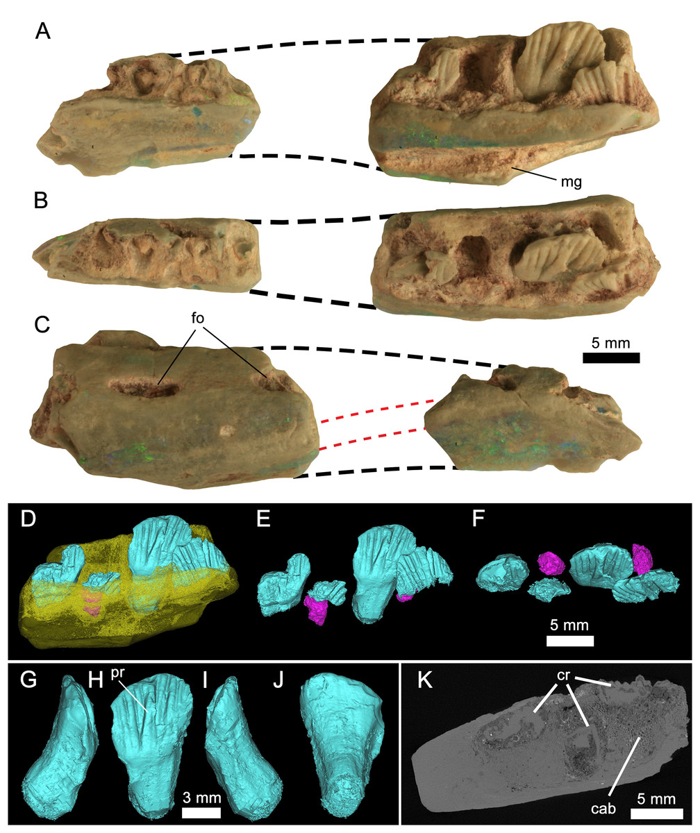 Right dentary in (A), medial; (B), dorsal; and (C) lateral views. Dashed black lines represent approximate contours of the missing areas. Dashed red lines indicate the distinctive banding pattern in the opal used to estimate the extent of the missing area. (D–F) Three-dimensional renders of the posterior dentary fragment in (D) lingual view showing erupted (blue) and developing germ teeth (pink); (E) Same as (D) but with dentary removed; (F) dorsal (occlusal) view of tooth row. (G-J) Three-dimensional render of the best-preserved tooth in (G) mesial, (H) lingual, (I) distal, and (J) labial views. (K) MicroCT scan of the posterior dentary fragment in axial view showing preservation of cancellous bone. Abbreviations: cab, cancellous bone; cr, tooth crown. Photo credit: Phil Bell.